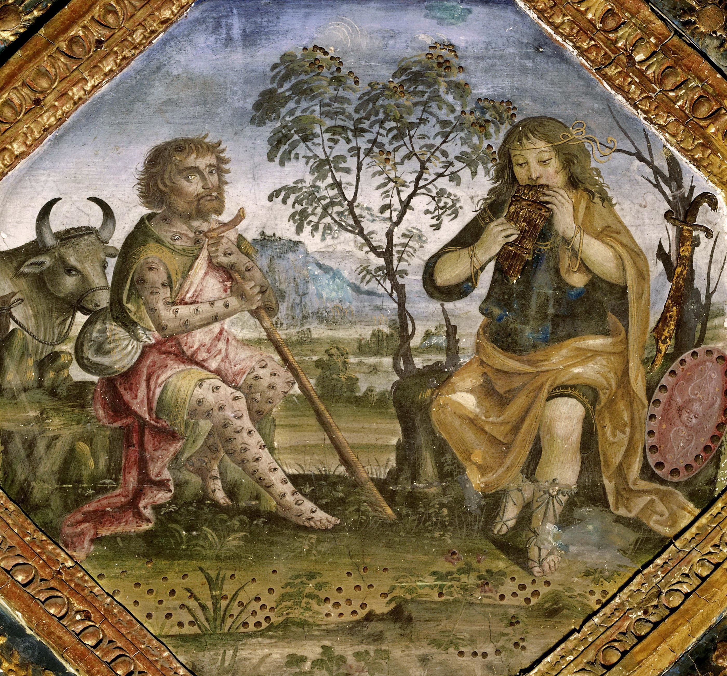 Pinturicchio – Io, Argus and Mercury